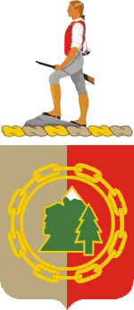 167th Support Battalion Coat Of Arms